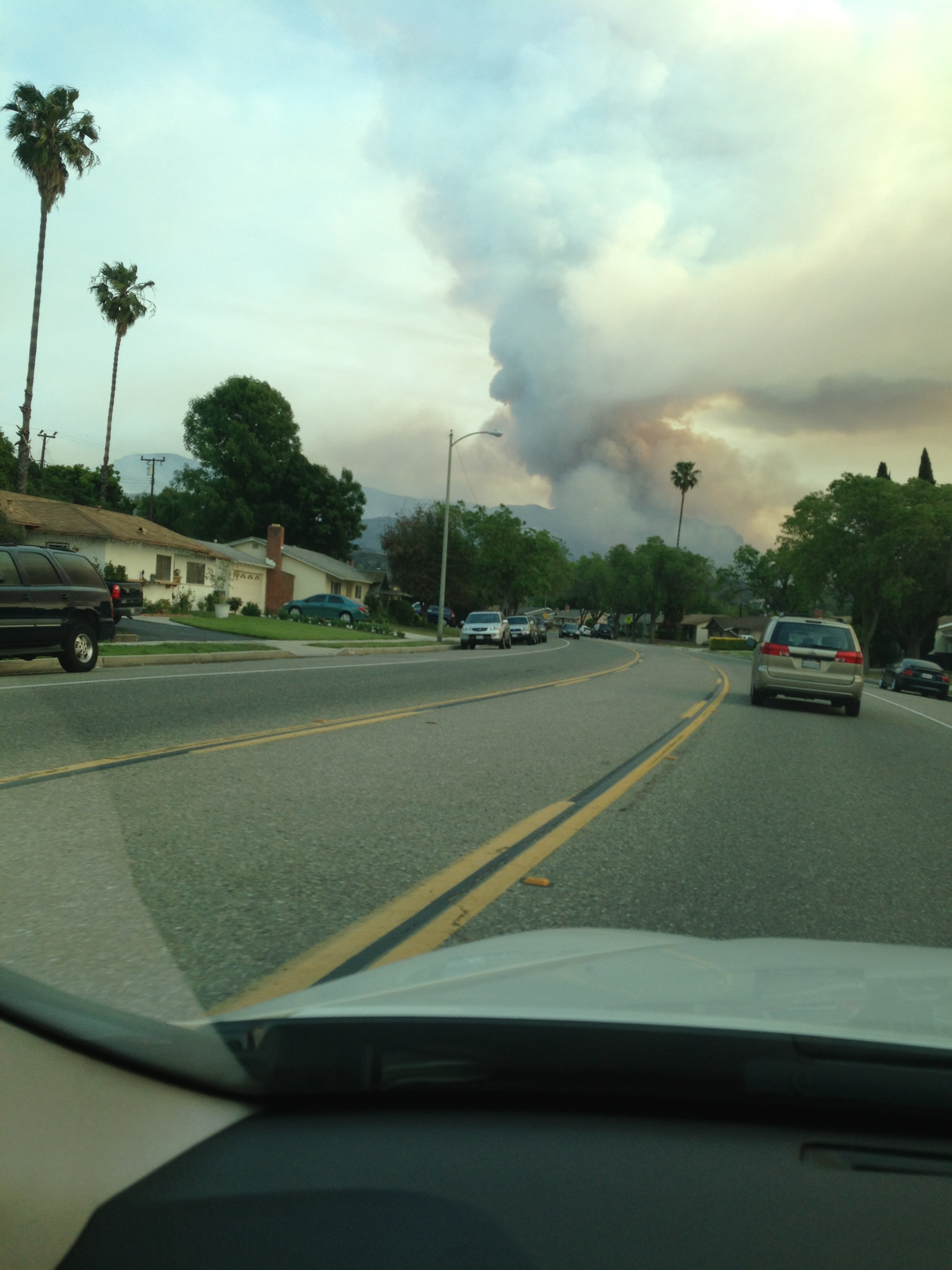 View of the fire from a local neighborhood.